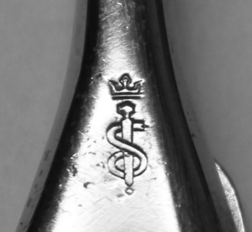 Surgical instrument (before 1970)